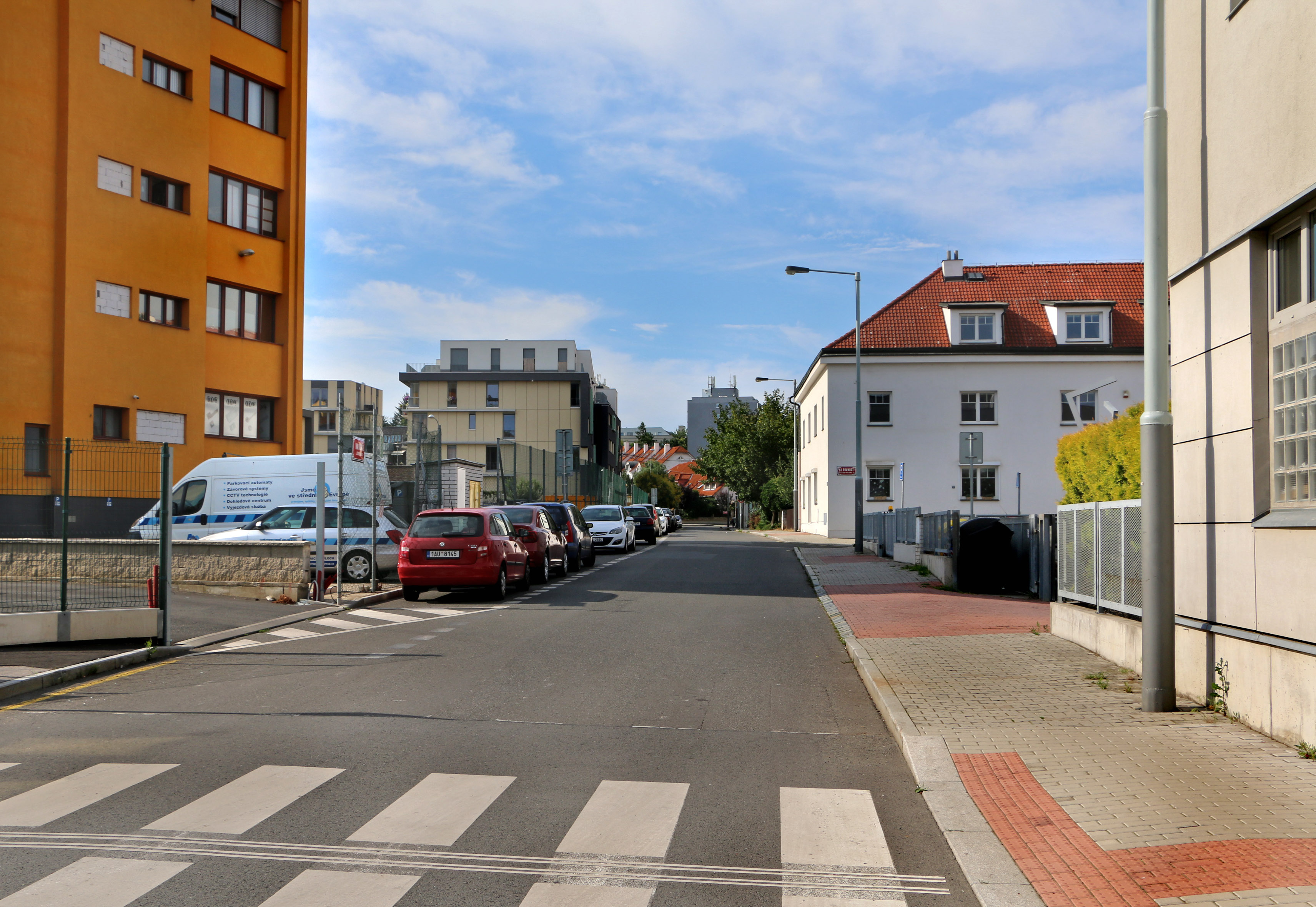 Na Vackově street, Prague.